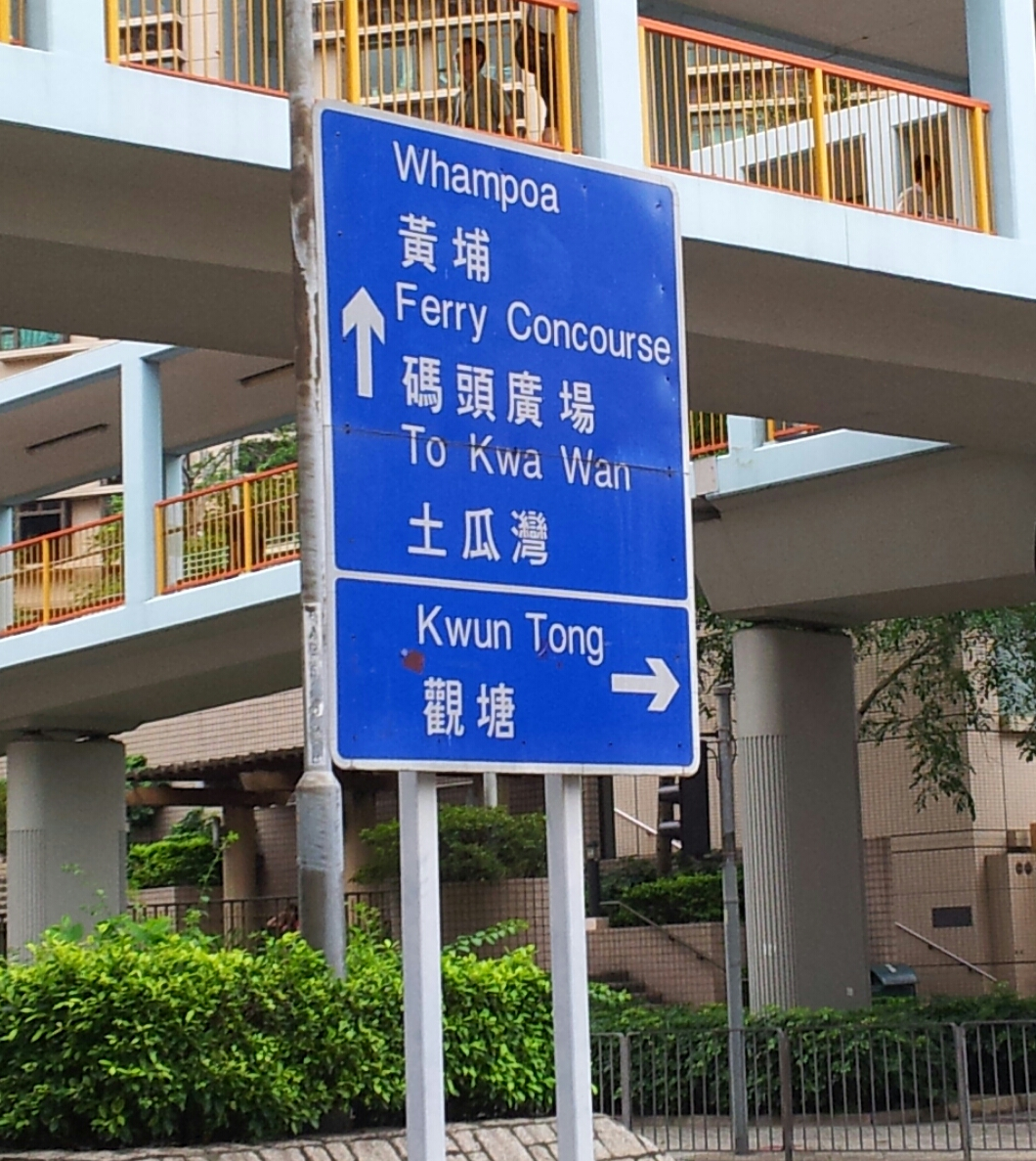 Whompoa, Hong Kong